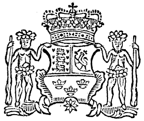 Coat of arms of Denmark-Norway. Image from the header from the first page of the first issue of Kongelig allene privilegerede Tronhiems Adresse-Contoirs Efterretninger (now: Adresseavisen), published 3 July 1767.